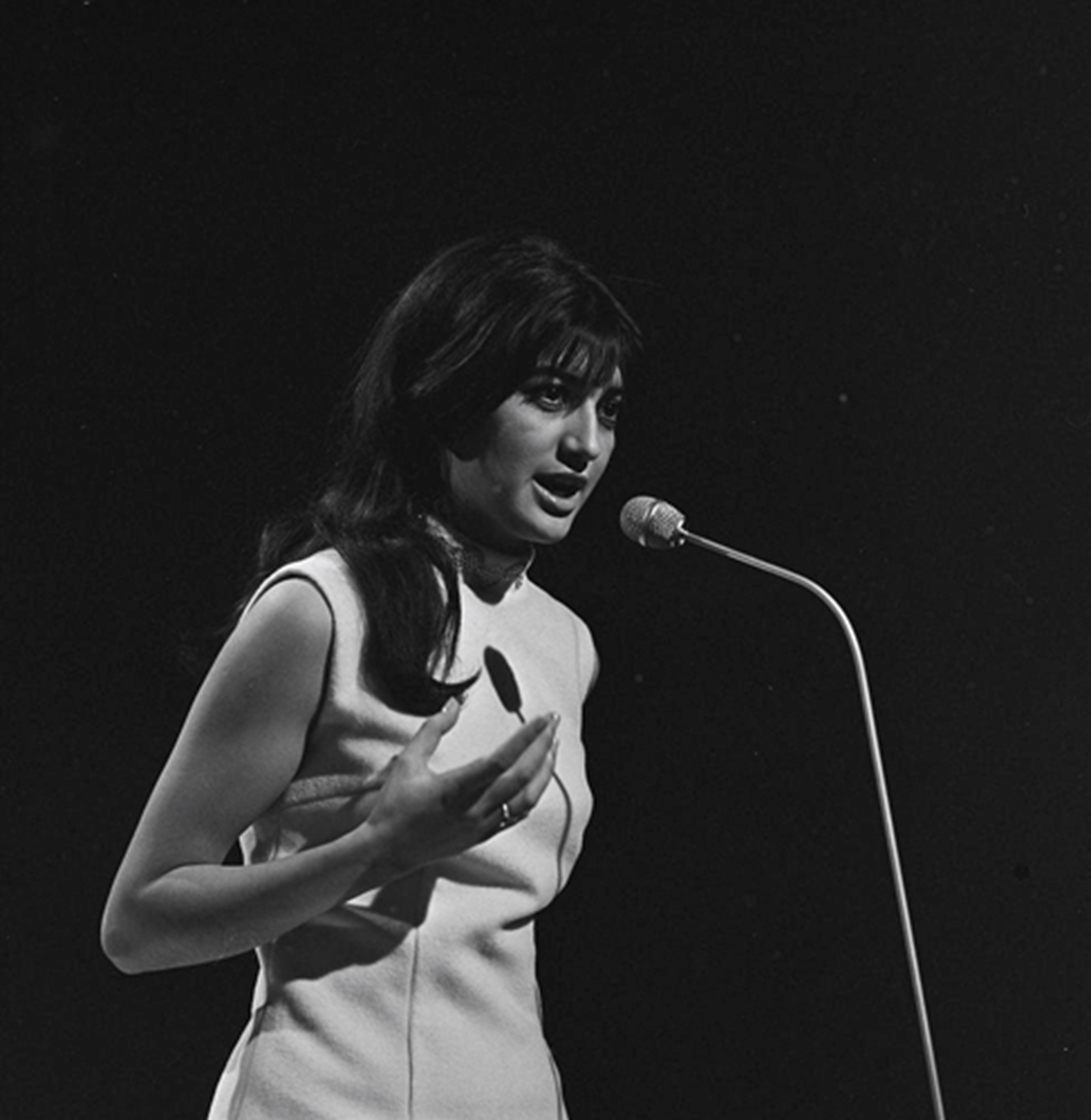 Margie Ball performing the song "Green green grass of home" in the Dutch TV programme Fanclub. Recorded 7 January 1967, broadcast 13 January 1967